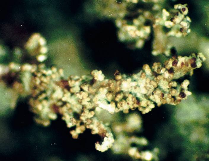 Cladonia parasitica (Hoffm.) Hoffm., 1796 Photograph of a herbarium specimen taken through a dissecting microscope (x40) showing the isidiate thallus. C. parasitica was growing on a dead limb on the ground near a small stream, down hill from the Log Cabin Cellar (Middle Sector) at Soldiers Delight Natural Environment Area, Baltimore County, Maryland, USA (N 39o24.340', W 76o50.303', Elevation 599 feet) Collected and identified by E.C. Uebel (No. U-601, 31 May 2006)